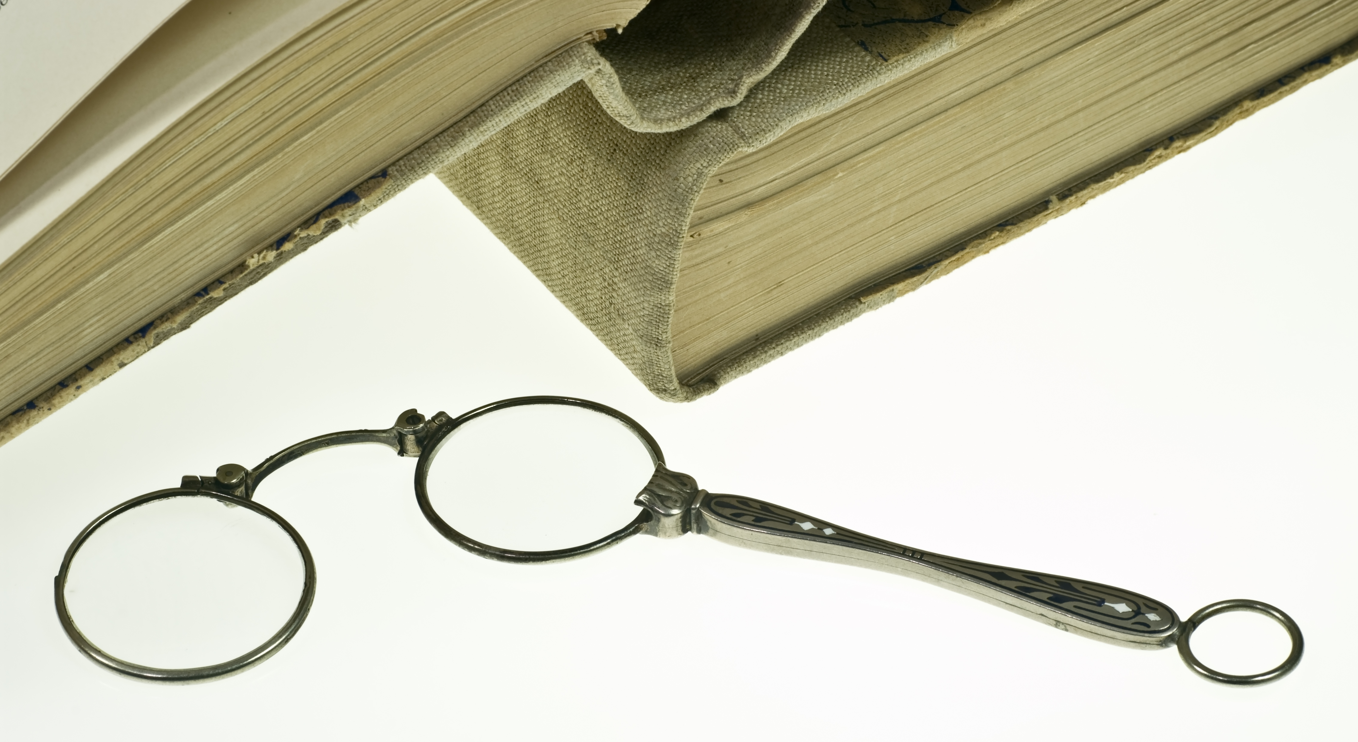 Lorgnette (hand held) spectacles.